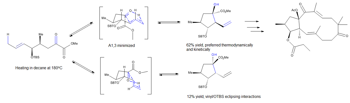 new fig 3